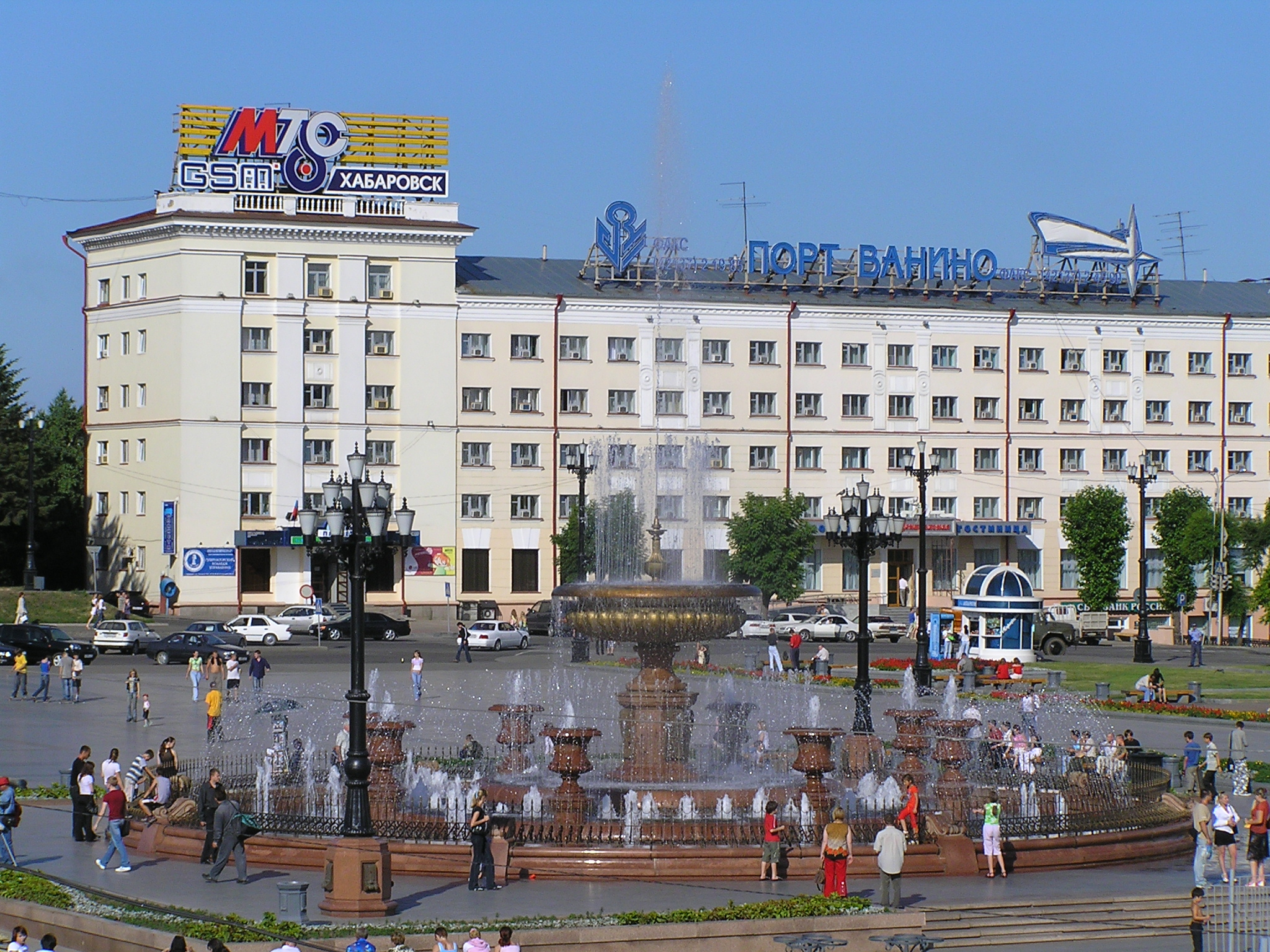 Big fountain on Lenin sq Khabarovsk